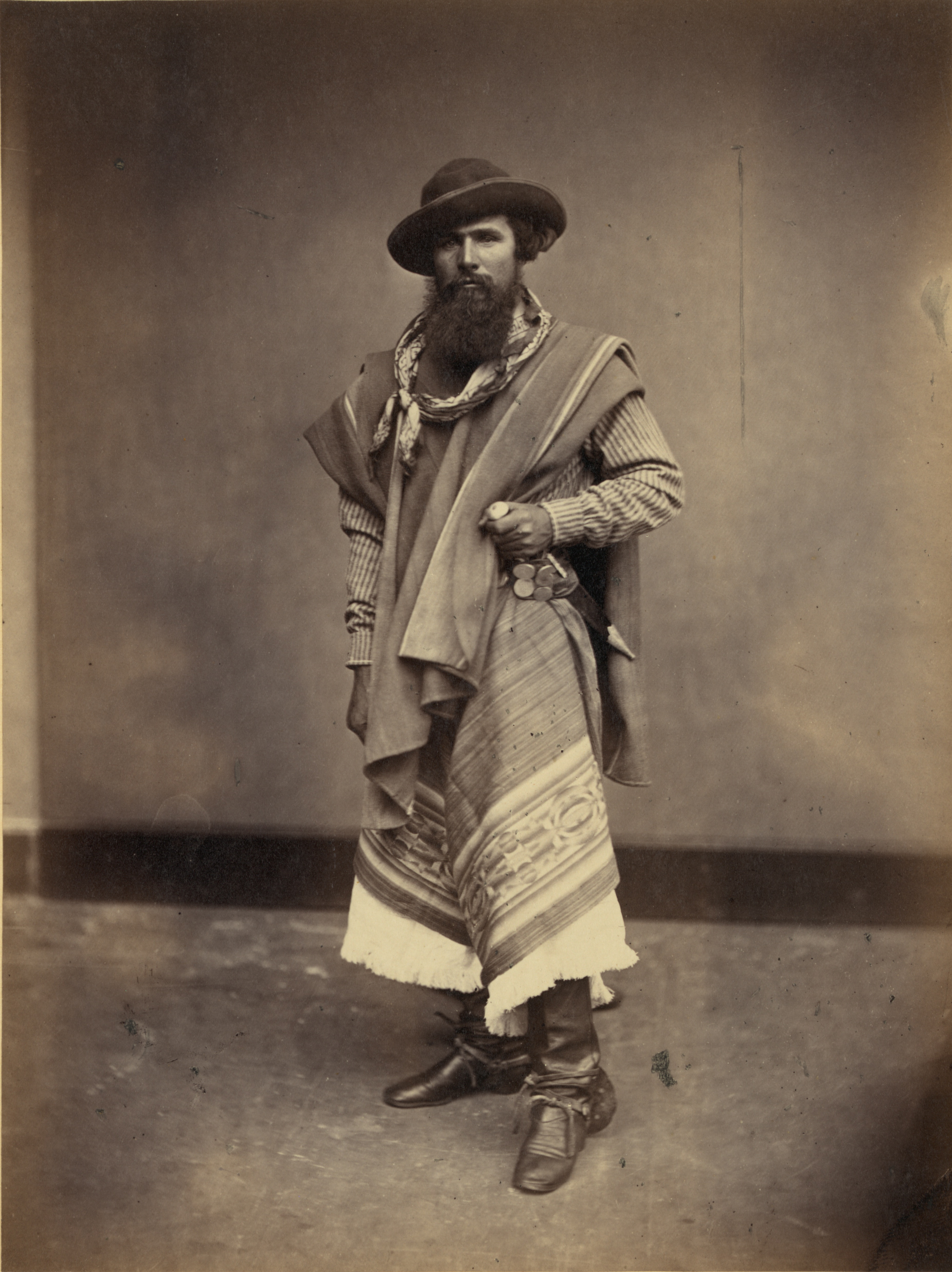 "Gaucho of the Argentine Republic".